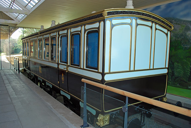 Ballater Station - reproduction of a Victorian railway saloon carriage The visitor centre in the converted station houses a reproduction of a Victorian saloon carriage, as used by Her Majesty Queen Victoria to journey between Windsor and Ballater in 1869. Costing £450,000, the carriage is a reproduction of the original carriage at the National Railway Museum in York.